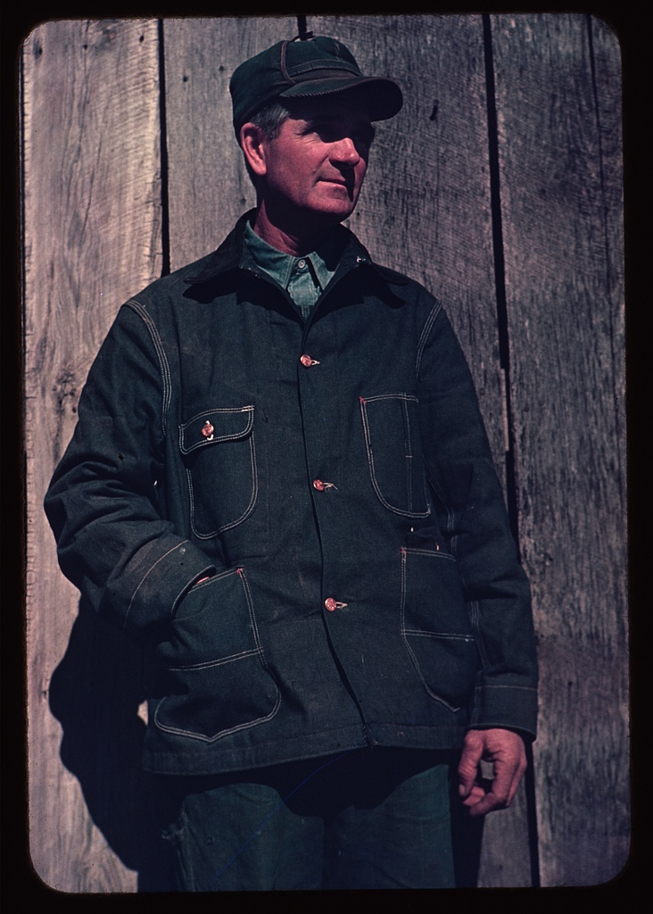 Title: [Man in bill cap and dungaree coat, possibly a farmer]